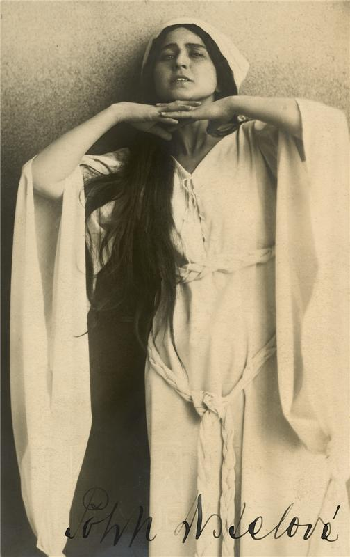 Czech actress Leopolda Dostalová as Lady Macbeth in National Theatre (Prague)